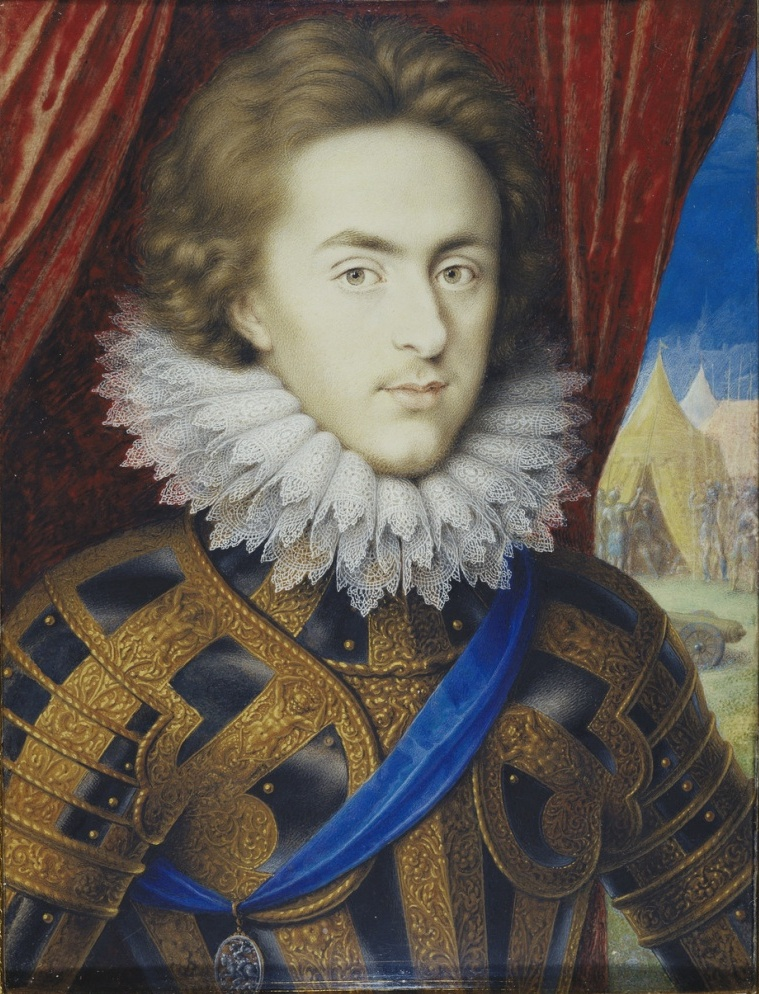 Henry, Prince of Wales by Isaac Oliver